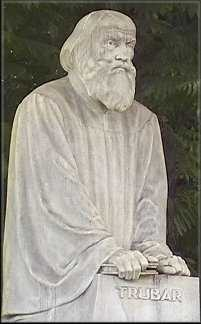 Primoz Trubar. By Fran Berneker, white Tyrolean marble, 1910.